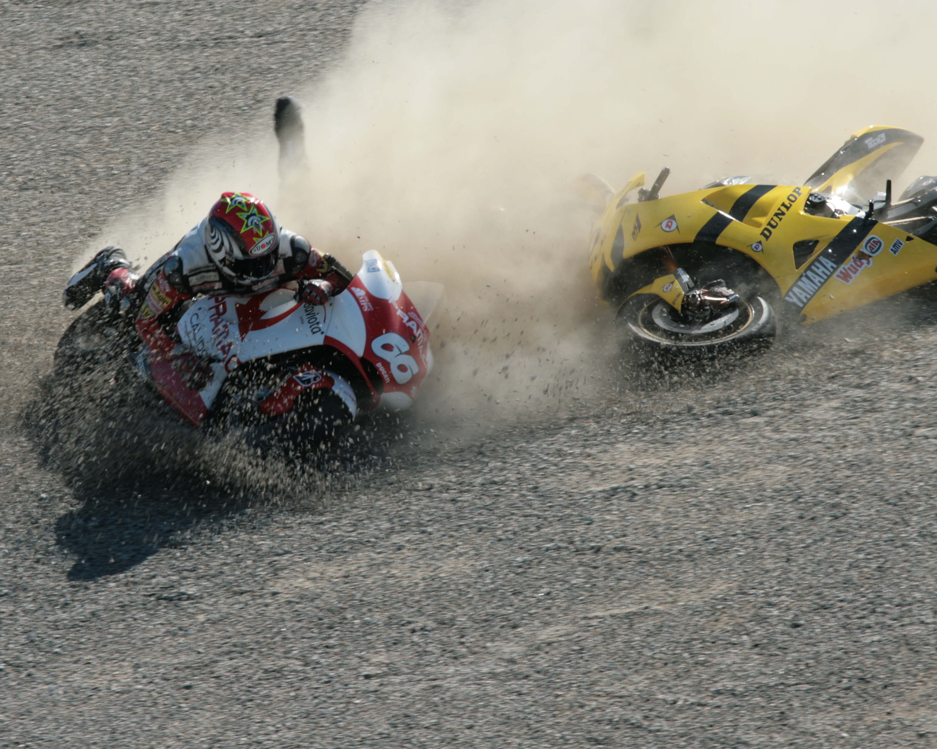 Alex Hofmann's crash at Laguna Seca MotoGP 2007